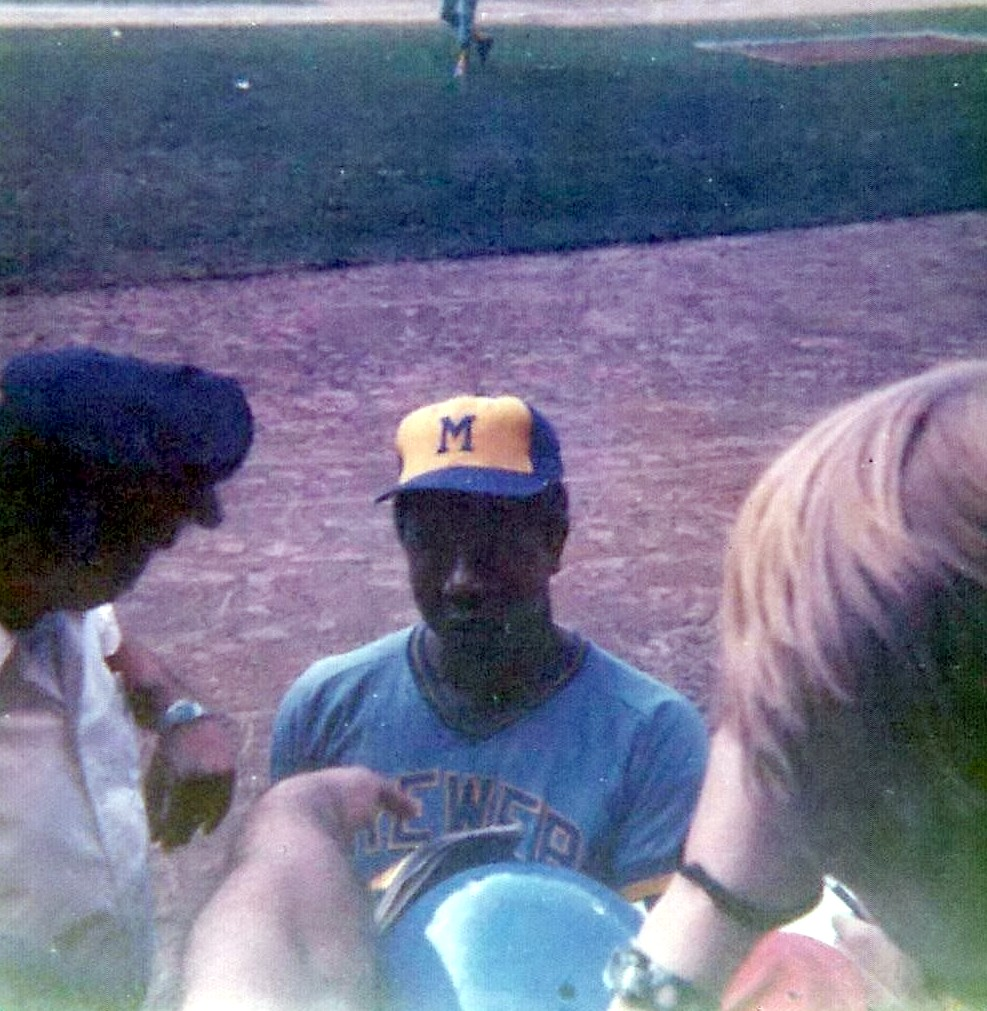 Hank Aaron signing autographs at Tiger Stadium on July 4th 1975 during a Detroit Tigers and Milwaukee Brewers baseball game.